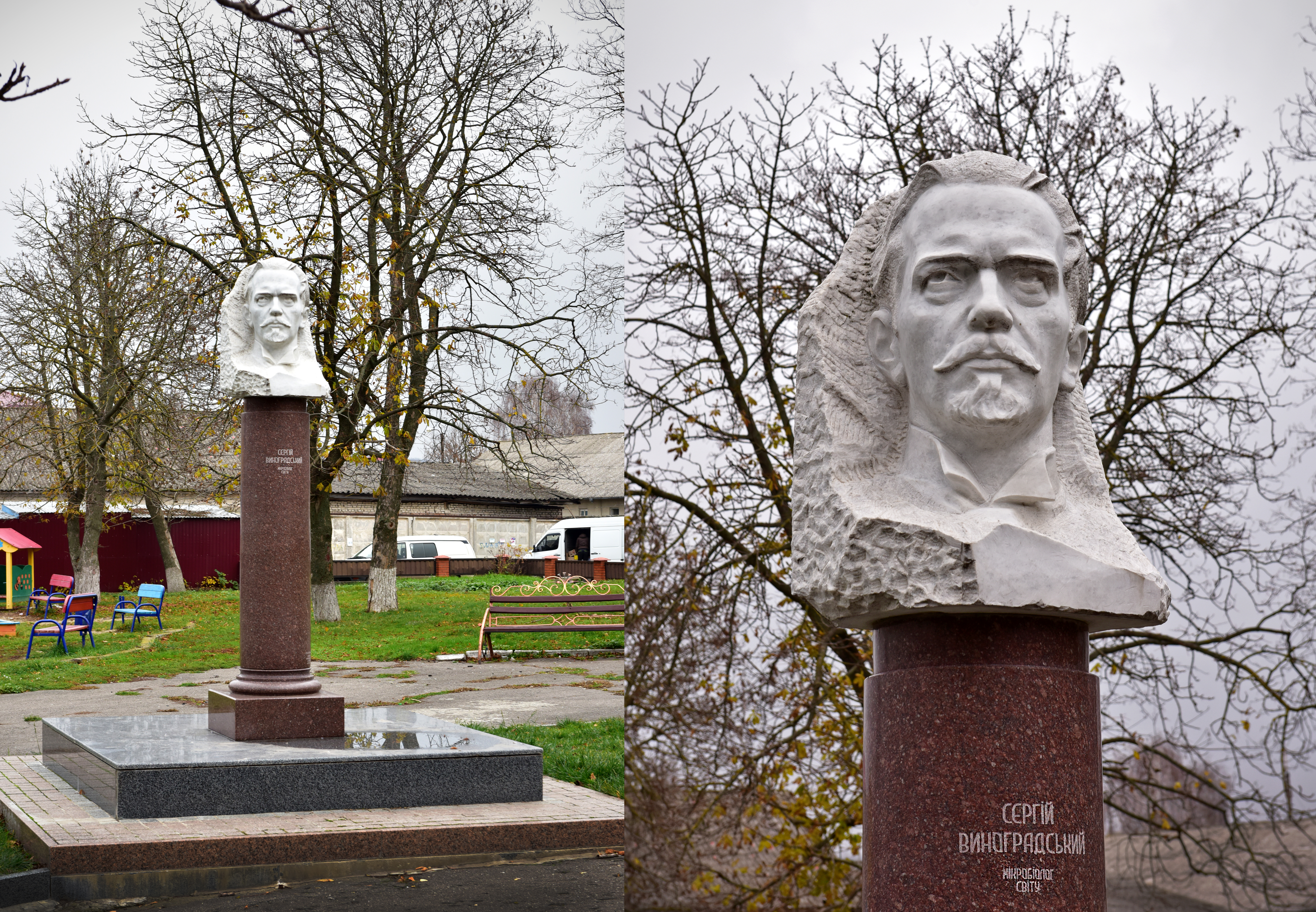 Bust to Sergei Vinogradsky - microbiologist of the World, who was in the town of Gorodok. Khmelnitsky region, Ukraine. His fate associated with Gorodok in 1920. He was a landlord, a rural landlord. Sergei Nikolayevich Vinogradsky (1856-1953), a microbiologist, an ecologist and a soil scientist. First of all, the discovery of chemosynthesis is associated with the name of S. Vinogradsky.